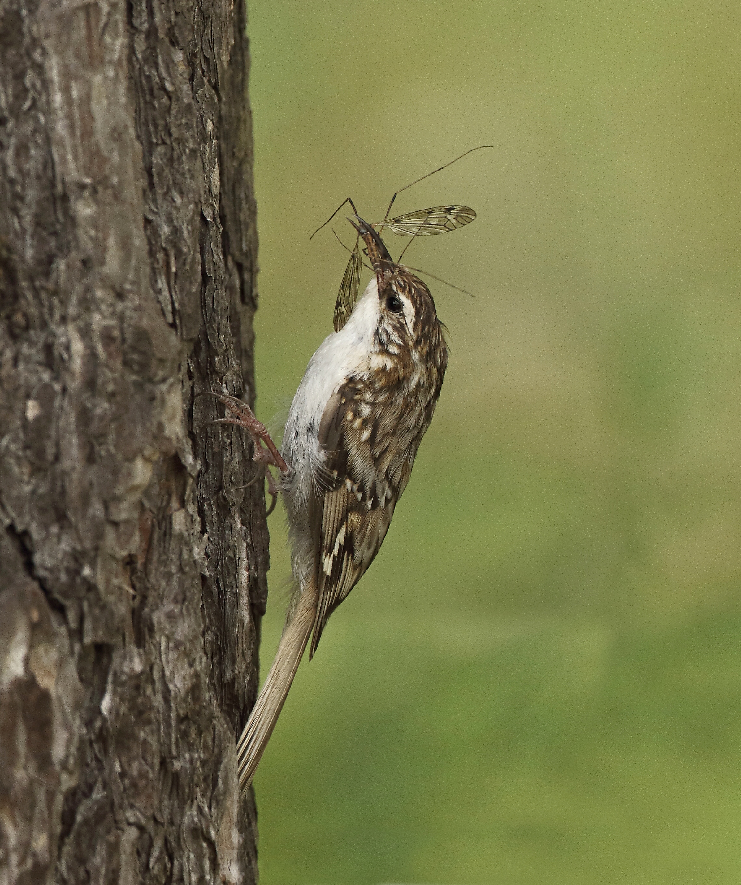 This is a photography of Natura 2000 protected area with ID GR1140001